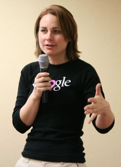 Vanessa Fox Photo by Marc Levin from flickr. I am the creator of this picture and I hereby release it under a GNU Free Documentation License. -Marc Levin This is Vanessa Fox speaking at the Business Blogher conference.